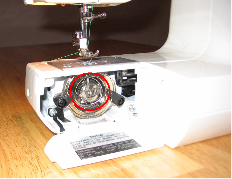 Photo showing the bobbin on a Singer sewing machine.